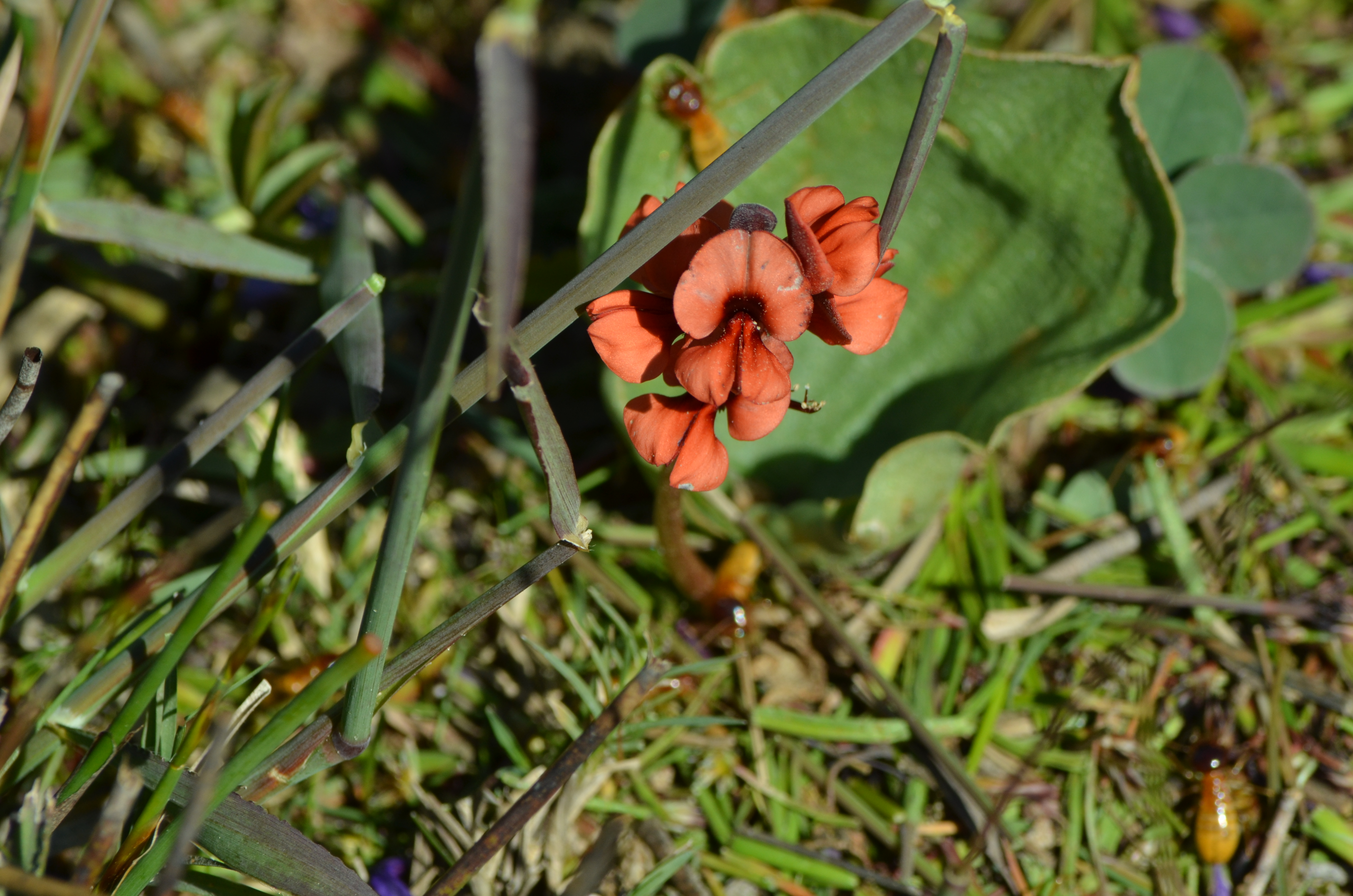 Indigofera procumbens